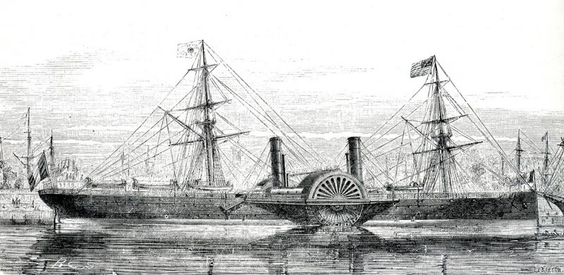 Drawing of french ocean liner SS Washington